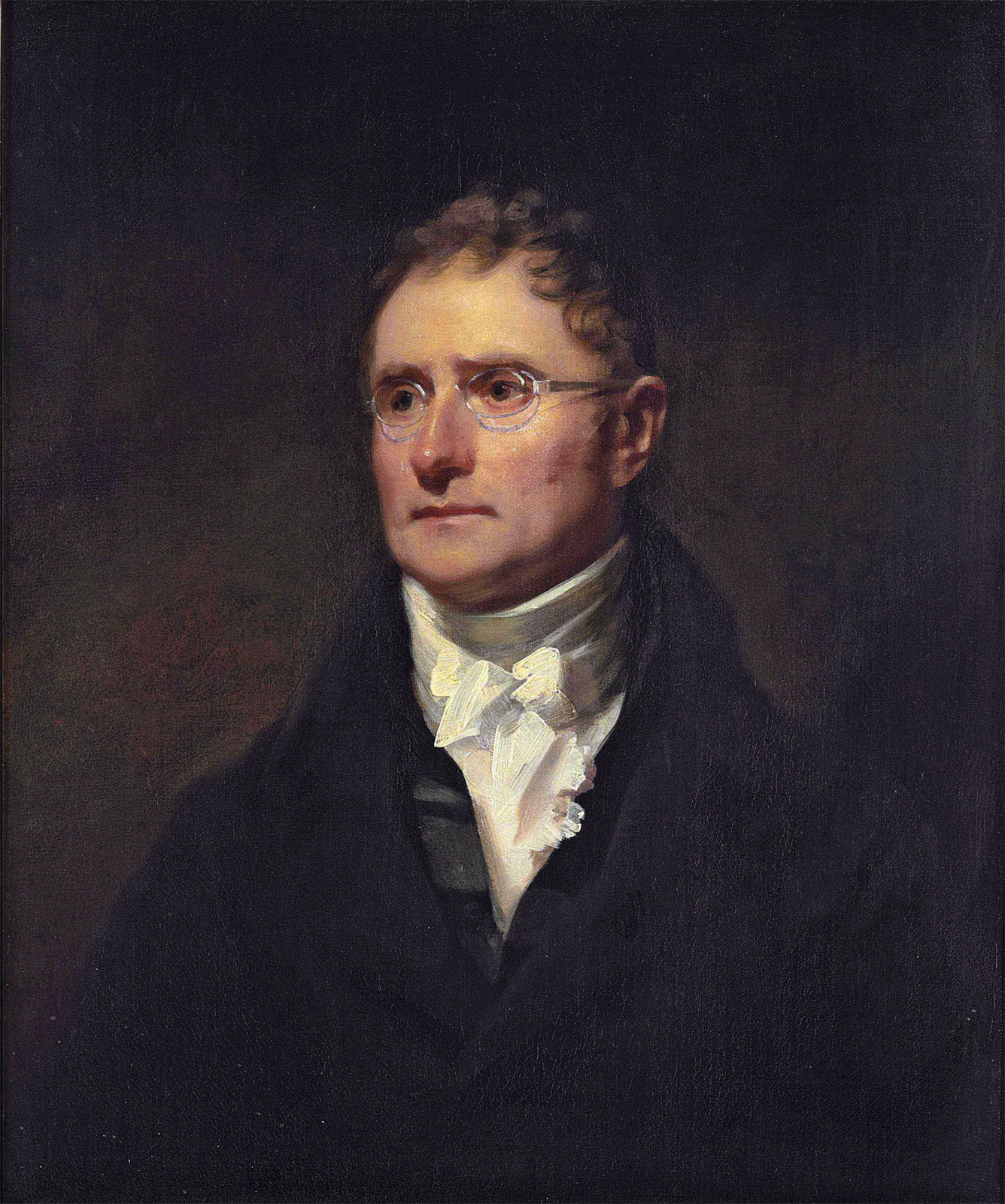 George Thomson (1757–1851) oil on canvas 77 x 64 cm